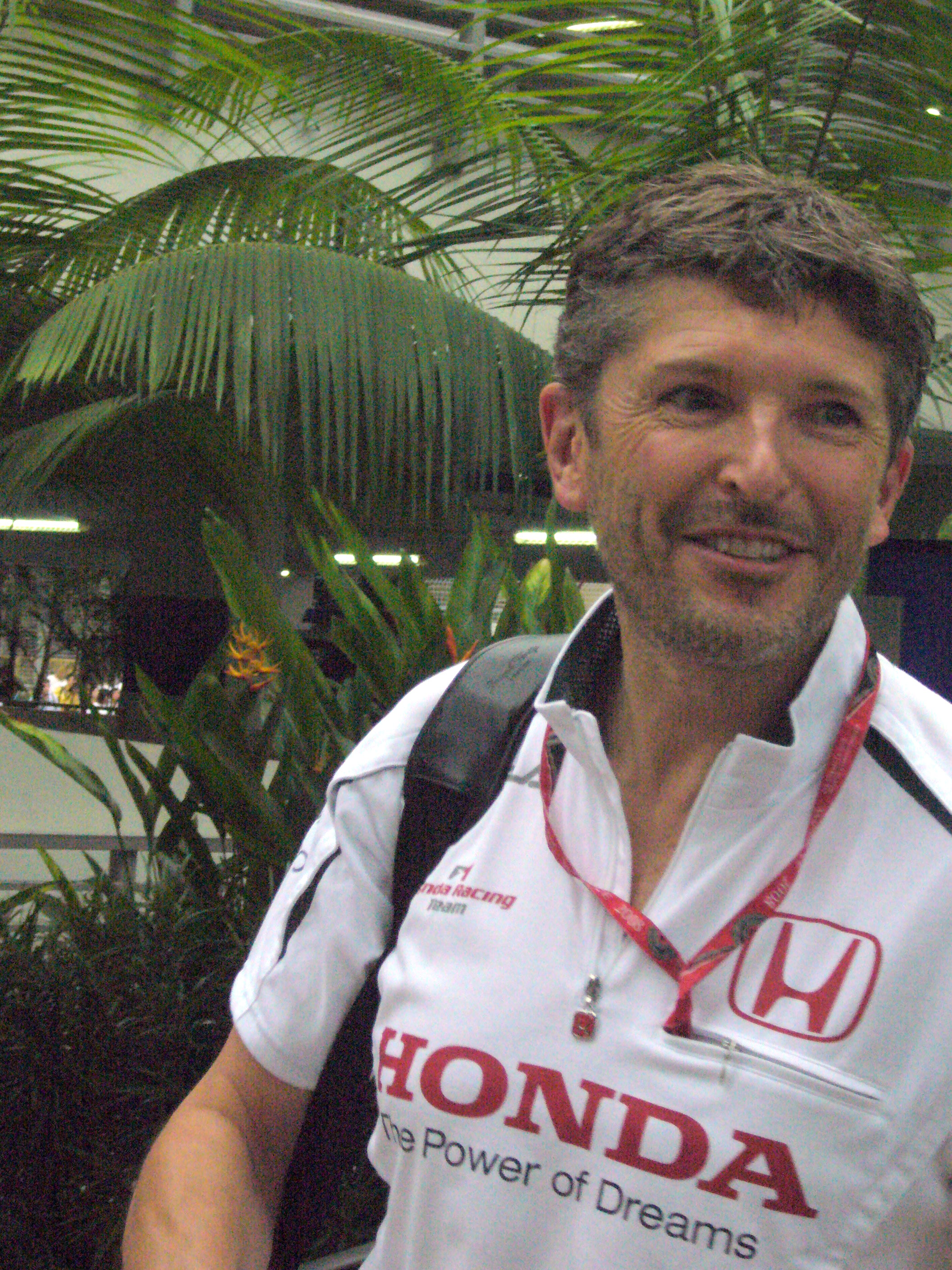 Nick Fry at the 2008 Singapore Grand Prix